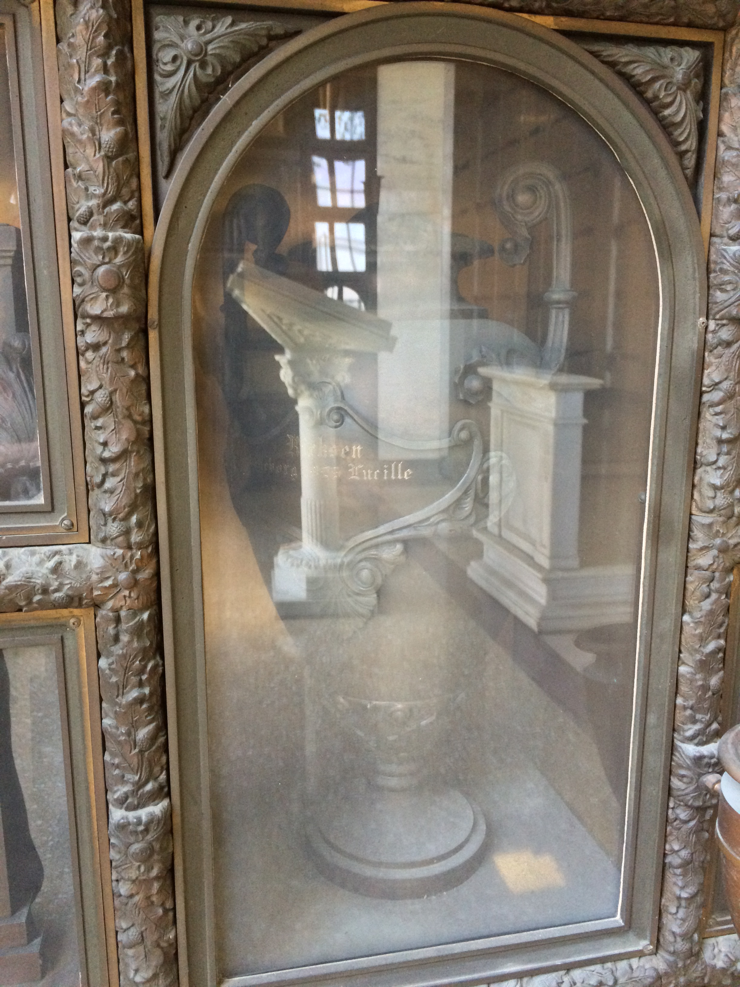 Niche of Lucille Ricksen, in the Dahlia Terrace of the Great Mausoleum, Forest Lawn Glendale.